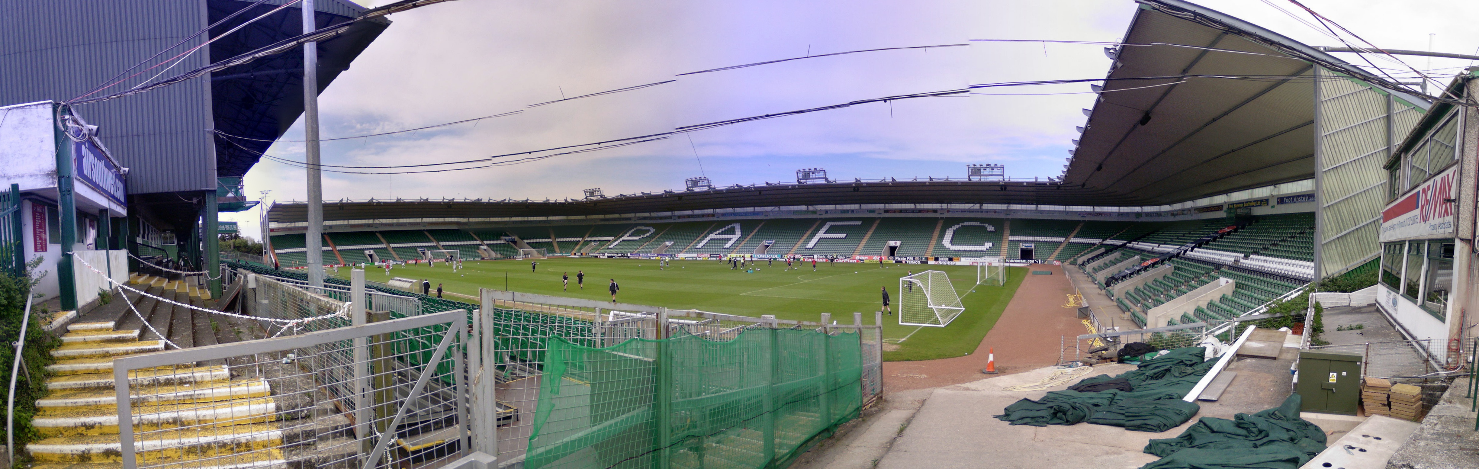 Inside Home Park from corner of Mayflower and Barn Park. Before reserve match in the Football Combination between Plymouth Argyle and Swansea City. Taken 2009-04-21.